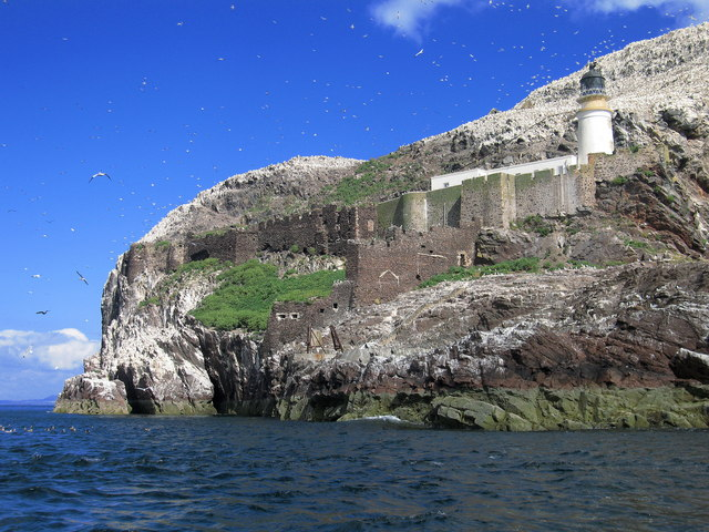 Bass Rock's castle, lighthouse and gannets, Firth of Forth, Scotland